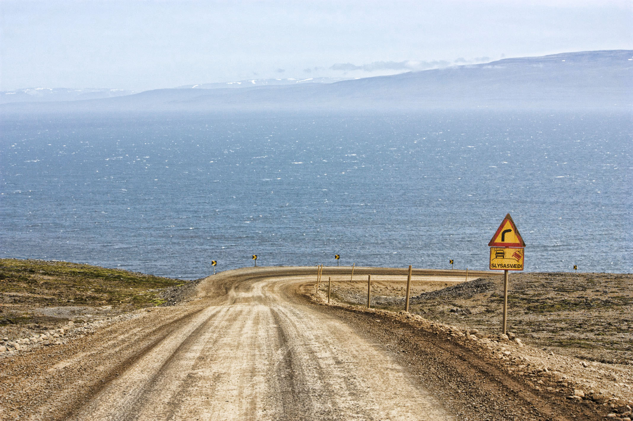 Road no. 68 in the Vestifirðir region in Iceland.